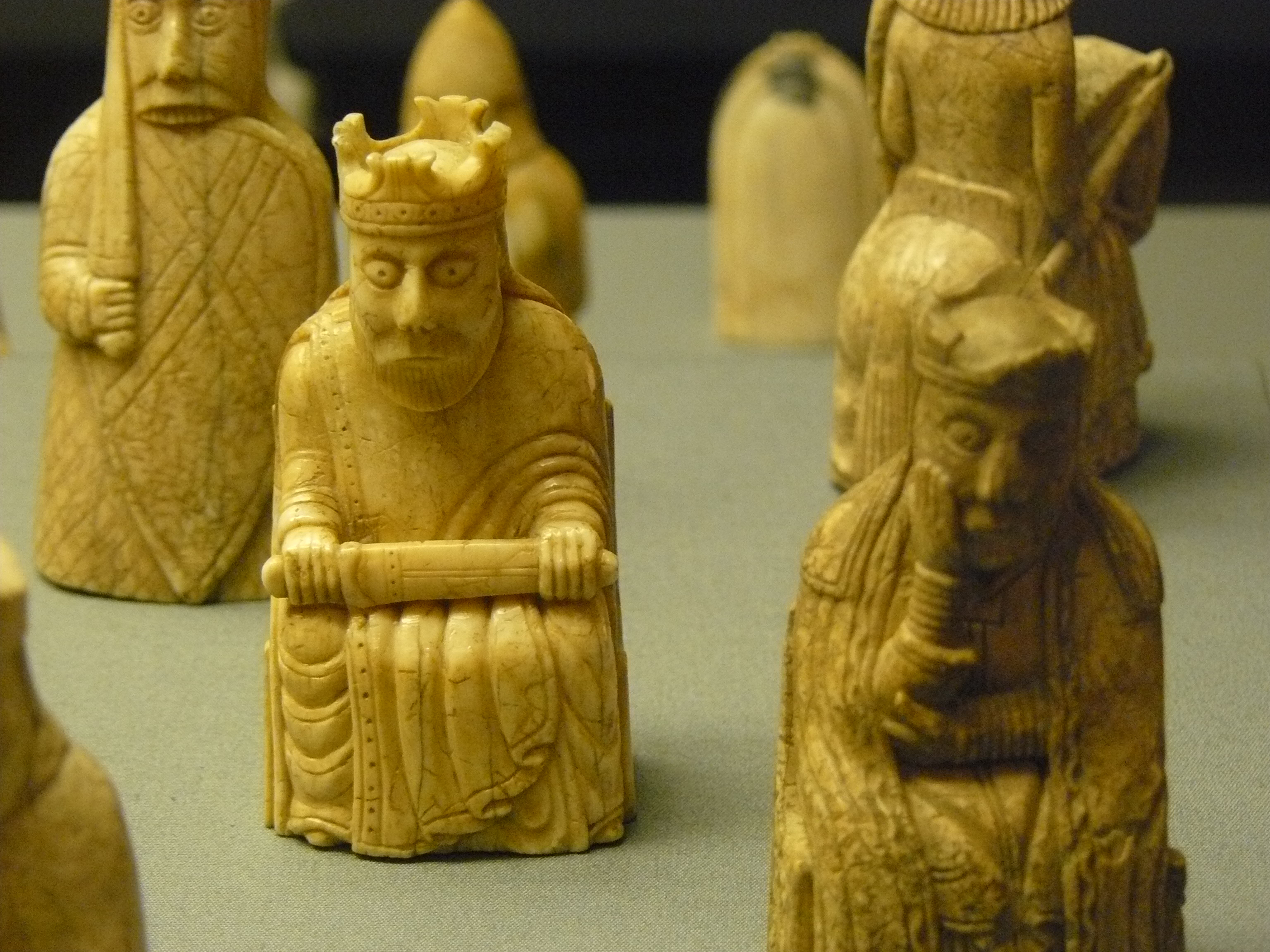 A king and a queen of the Lewis Chessmen, displayed at the British Museum